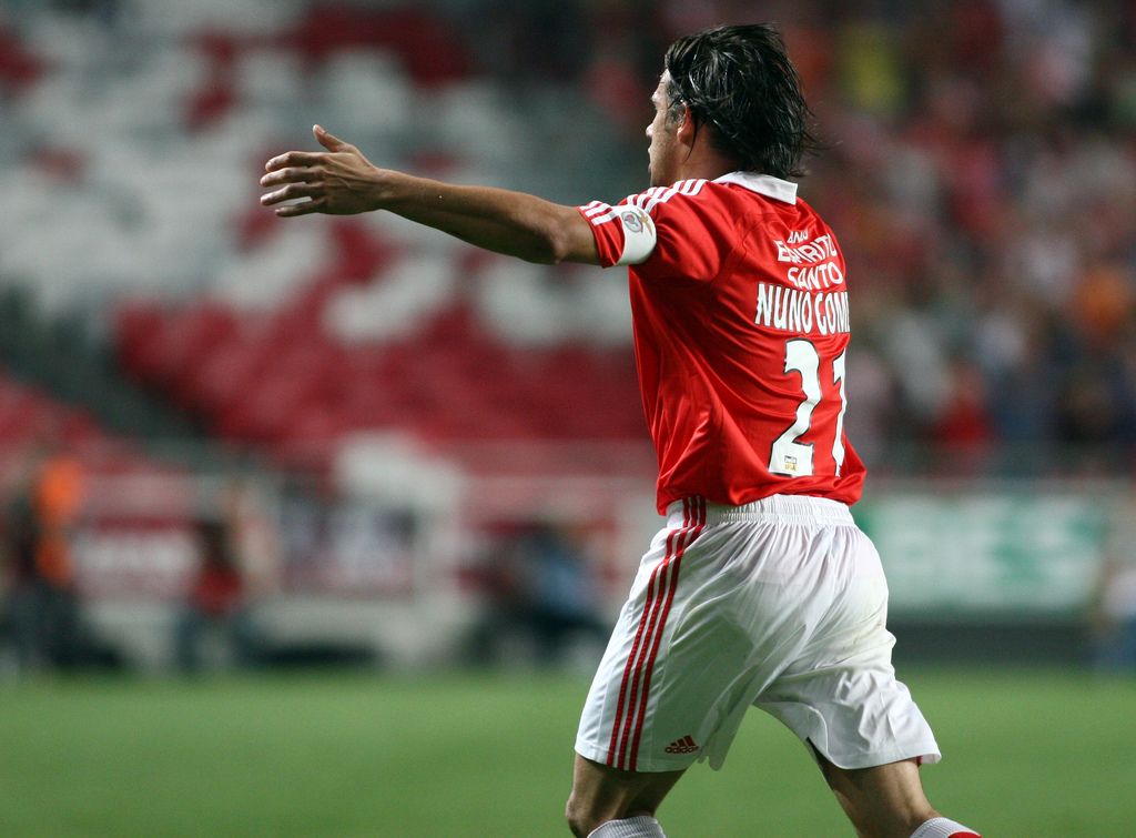 Benfica 3 - 0 Naval Nuno Gomes celebrating Benfica's 3rd Goal my first game as a lusa photographer at a Benfica match, my team.. It was hard not to celebrate the goals and photograph it instead :)